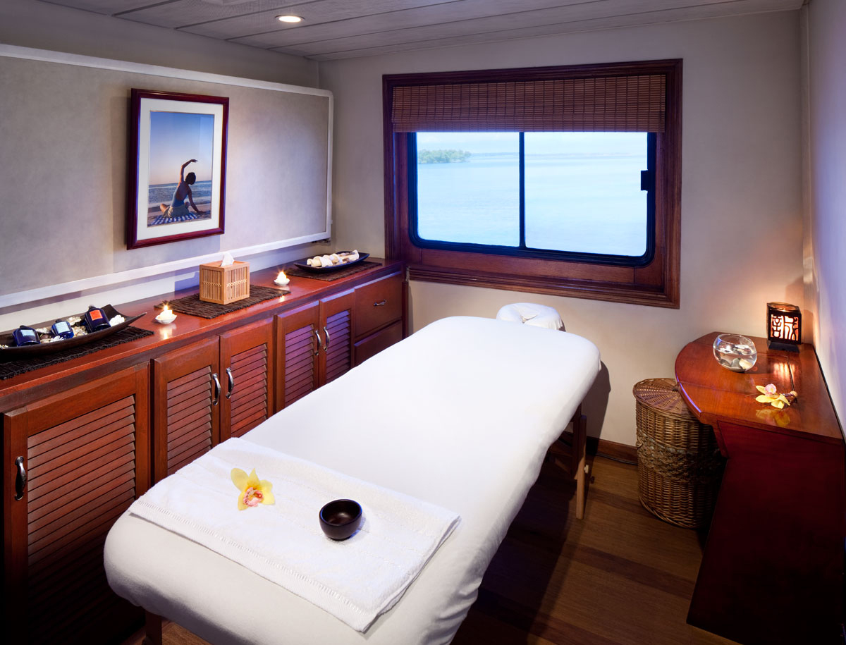 Massage Room of the Safari Voyager